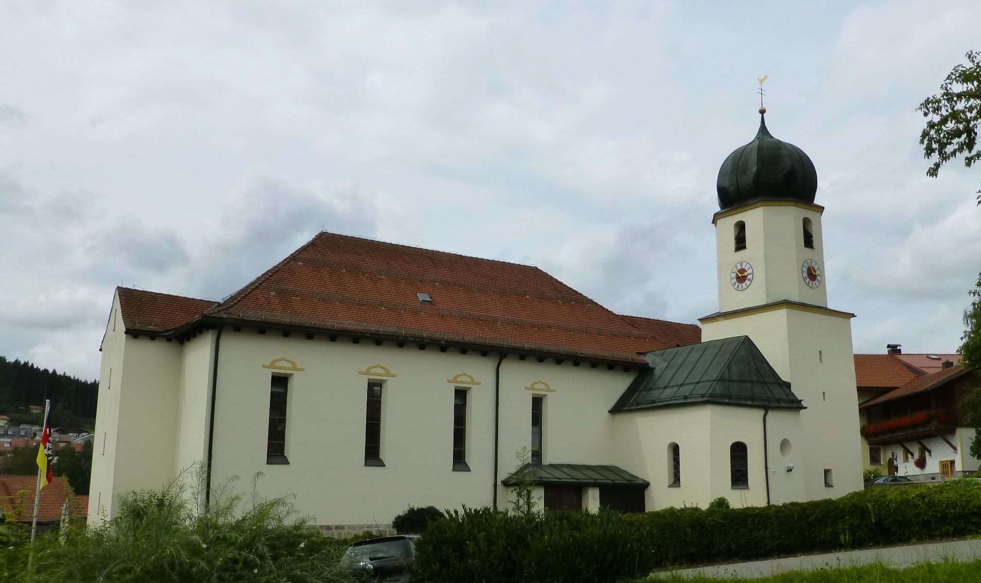 Church of Langdorf, St. Maria Magdalena, district of Regen, Lower Bavaria.